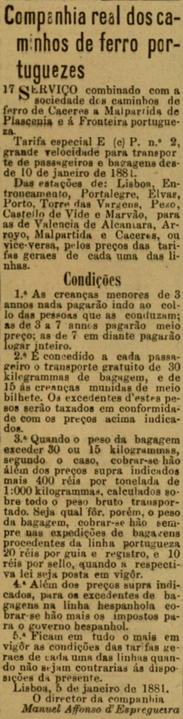 Announcement of the Companhia Real dos Caminhos de Ferro Portugueses (Royal Company of the Portuguese Railways), informing the public about a tariff for passengers and luggage with the Compañia del Ferrocarril de Madrid a Cáceres y Portugal. This image was published on the Diario Illustrado newspaper No. 2763, of 22th January, and scanned by the Biblioteca Nacional de Portugal.